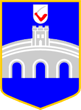 Banner of the Croatian city of Osijek. Uploaded by user Neoneo13. Taken from Croatian Wikipedia. Originally uploaded by Krešimir Ižaković